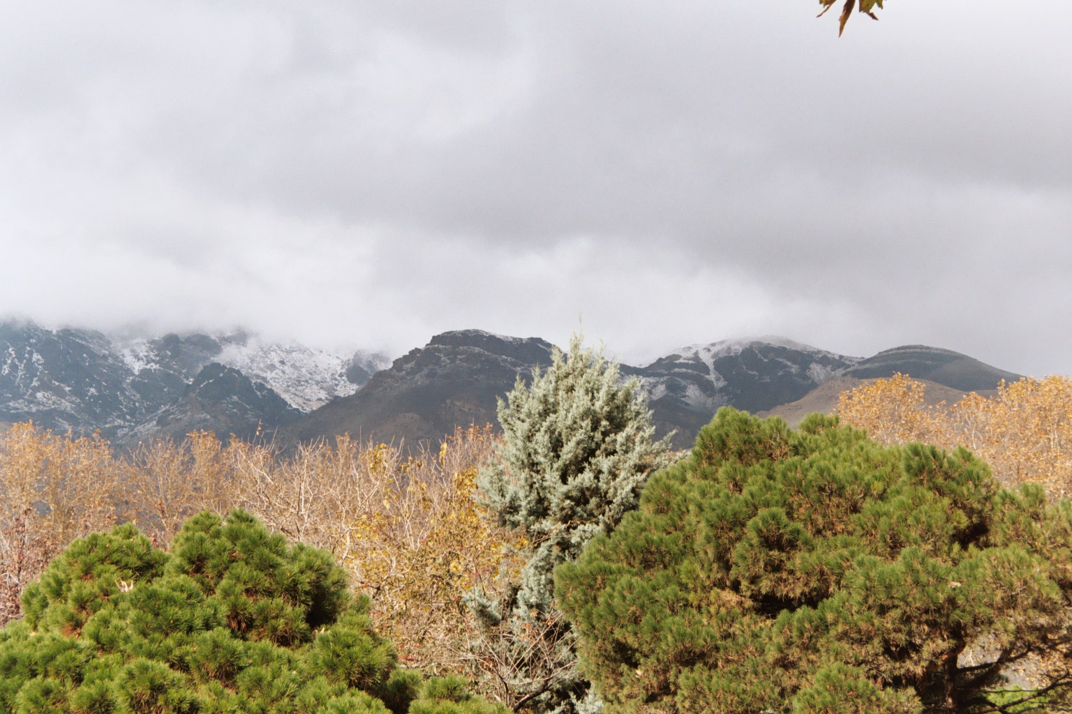 Alborz Mountain taken from Niavaran Palace in Tehran, by Elke Parsa in 2004.